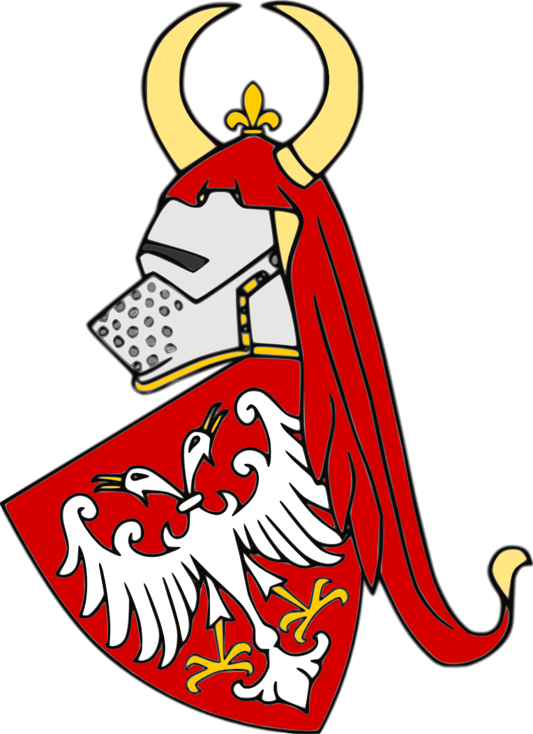 Coat Of Arms Of Lazar Hrebeljanovic